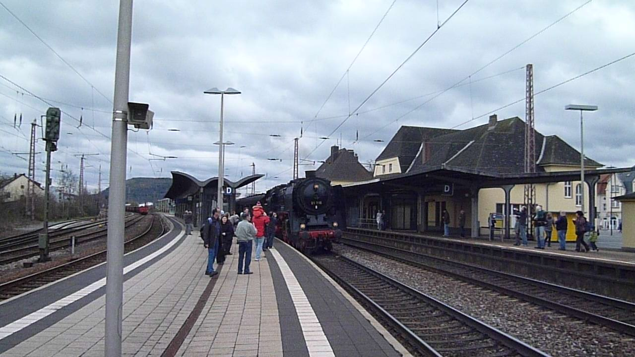 BR 01 118 ready to depart in the direction of Dillingen in Saarlouis central station